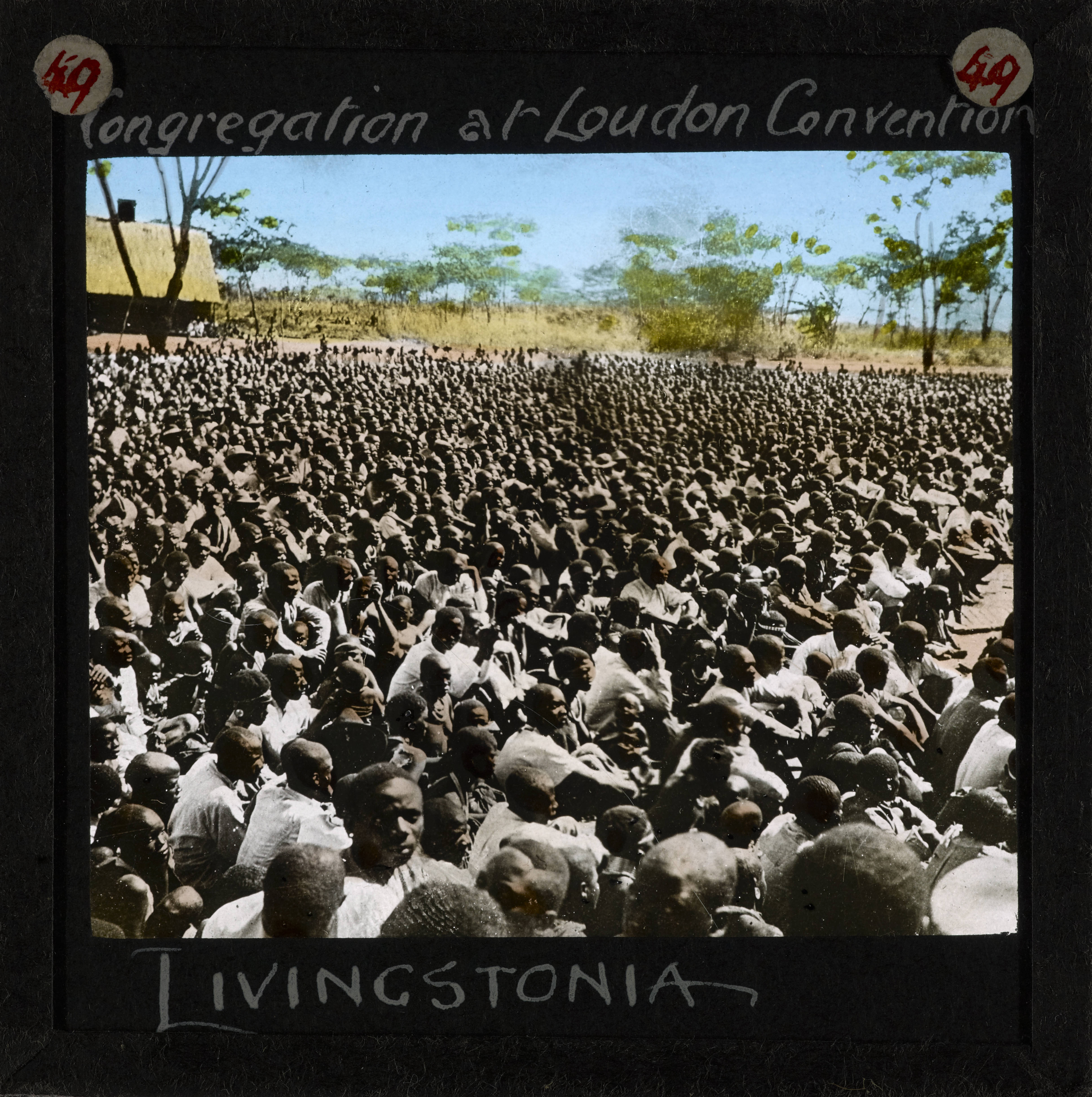 "Congregation at Loudon Convention, Livingstonia", Malawi, ca.1910 Photograph of a large group of African men, possibly of the Ngoni people, gathered for a convention in Loudon in northern Malawi. Rows of men can be seen stretching into the background of the picture.; This belongs to a series of Church of Scotland Foreign Missions Committee lantern slides relating to Rev Donald Fraser (1870-1933). Rev Donald Fraser, the Scottish missionary, was born in Argyllshire, Scotland, the son of a Free Church minister. In his youth Rev Fraser helped found the Student Volunteer Movement in Britain and the World Student Christian Federation before beginning missionary service in Malawi with the Free Church of Scotland. He worked in Malawi from 1896 until he returned to Scotland in 1925. He was first posted to Ekwendeni and later Embangweni. Rev Fraser worked closely with the Ngoni people. Photographer: Unknown Filename: imp-cswc-GB-237-CSWC47-LS4-1-049.tif Coverage date: circa 1910 Part of collection: International Mission Photography Archive, ca.1860-ca.1960 Type: images Part of subcollection: Photographs from the Centre for the Study of World Christianity, University of Edinburgh, U.K., ca.1900-ca.1940s Repository name: Centre for the Study of World Christianity Archival file: impaunpub_Volume7/1498.url Repository address: The University of Edinburgh School of Divinity, New College, Mound Place, Edinburgh EH1 2LX, United Kingdom Geographic subject (country): Malawi Format (aacr2): 1 lantern slide : 8 x 8 cm. Geographic subject (continent): Africa Rights: Contact the repository for details. Part of series: Donald Fraser of Loudon LS4/1 Repository Subject (lcsh Keyword): Religious gatherings; Village communities Date created: circa 1910 Publisher (of the digital version): University of Southern California. Libraries Subject (aat genre): group portraits Format (aat): lantern slides Legacy record ID: impa-m68547 Access conditions: File: GB 237 CSWC47/LS4/1/49